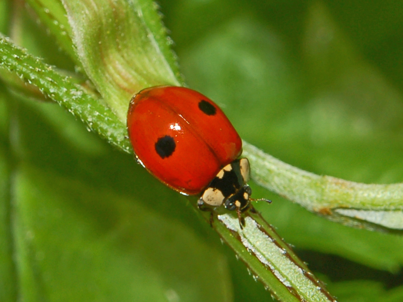 "Adalia bipunctata". Cerreto Ratti, Alessandria, Italy